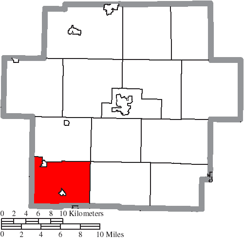 Map of the municipal and township boundaries of Carroll County, Ohio, United States, as of the 2000 census, with the location of Orange Township highlighted. Township borders are shown only in unincorporated areas in order to differentiate incorporated and unincorporated areas more clearly.